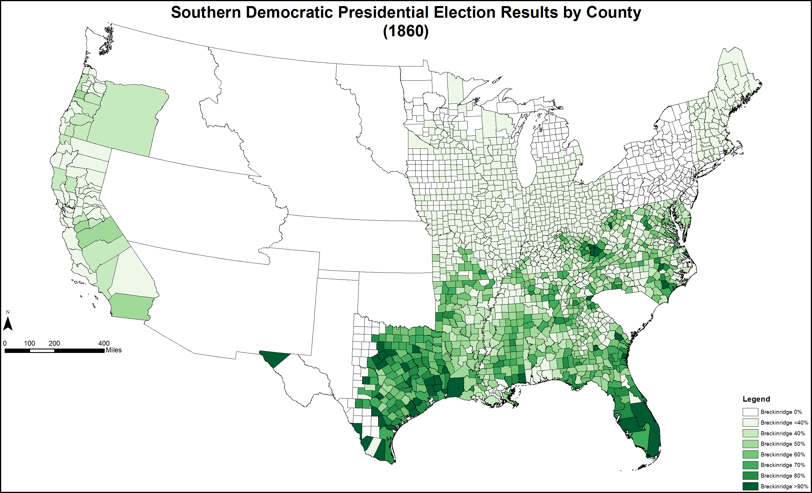 Southern Democratic presidential election results by county (1860). Colors based on Colorbrewer 2.0.